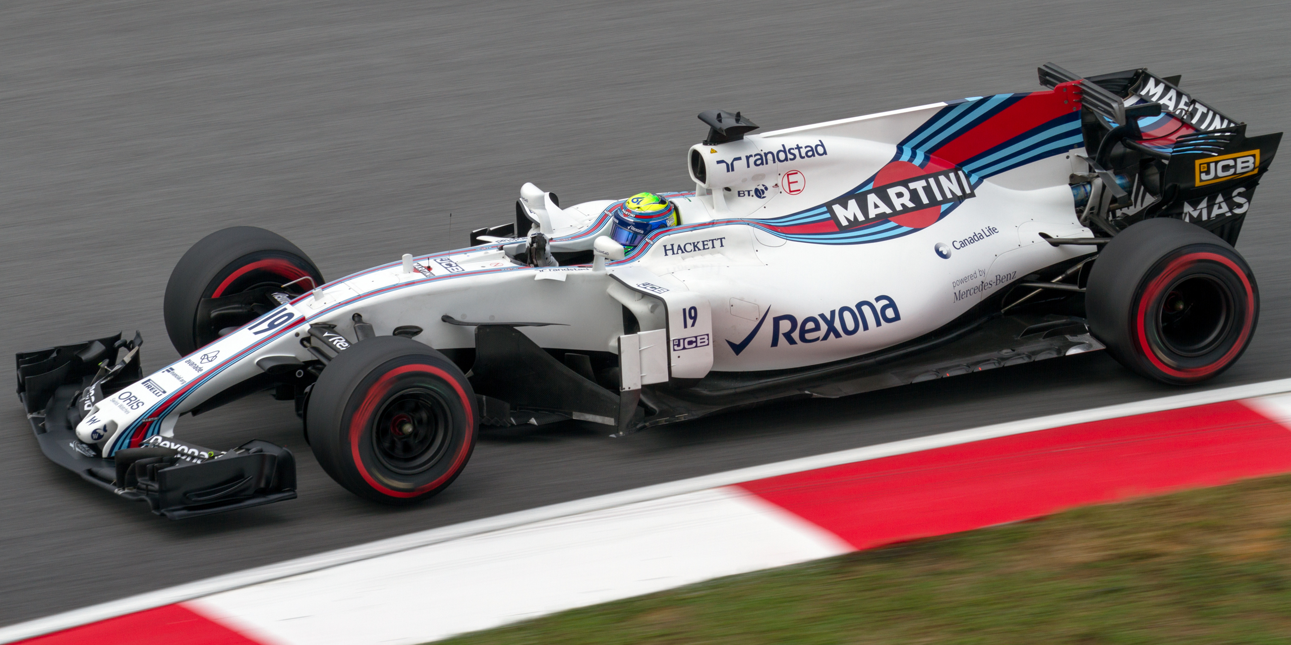 Formula One 2017 Rd.15 Malaysian GP: Felipe Massa (Williams)